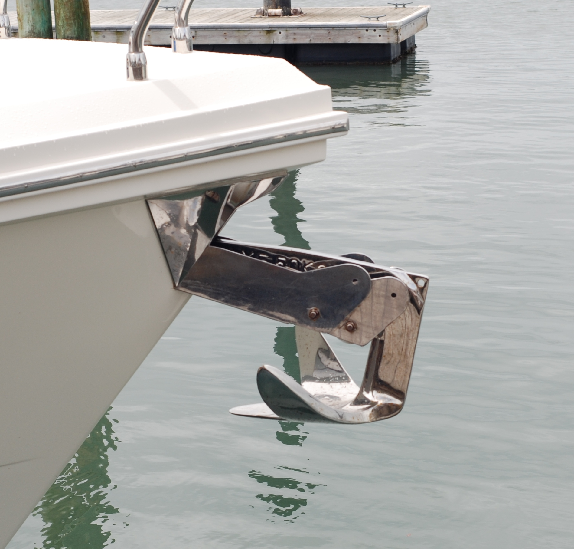 Claw anchor at boat dock in Beaufort, North Carolina.